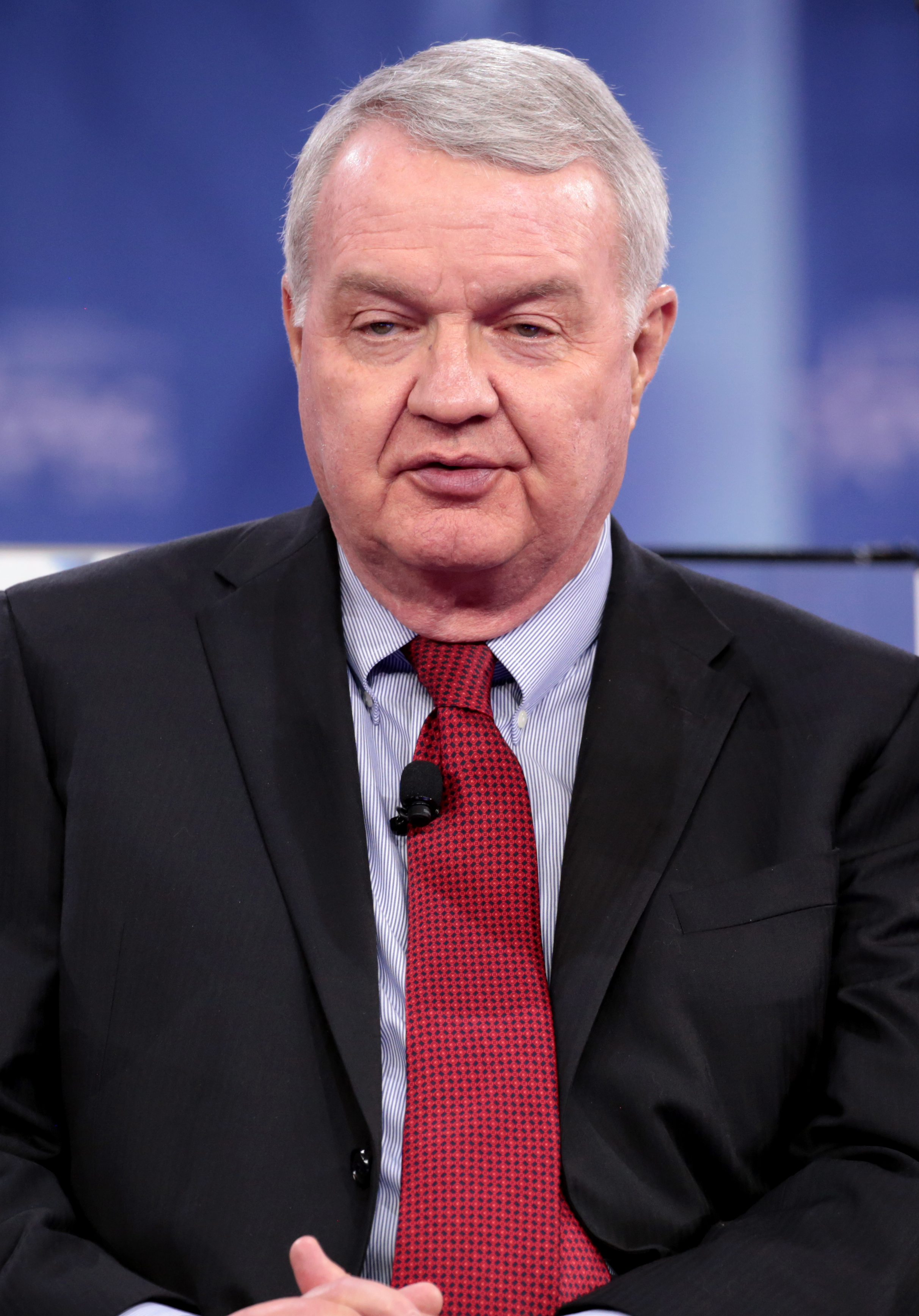 James Burnley speaking at the 2018 CPAC in National Harbor, Maryland.